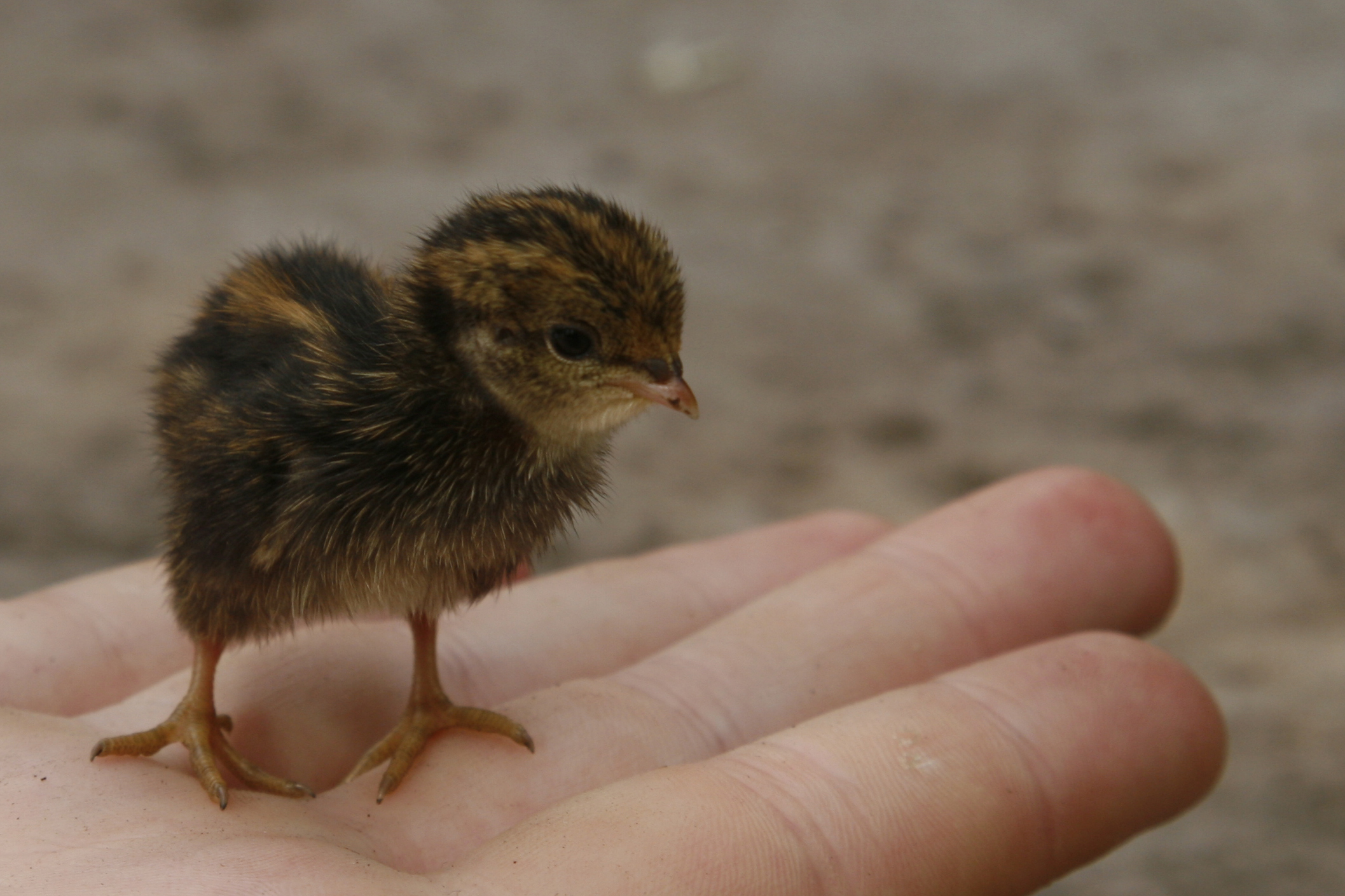 A Blue-breasted Quail chicken (Coturnix chinensis). Fjärilshuset, Stockholm, Sweden.